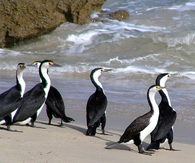 Pied Cormorant (Phalacrocorax varius) in Australia.